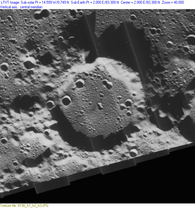 Image of moon crater Gioja from Lunar Orbiter data (frame IV-190H)